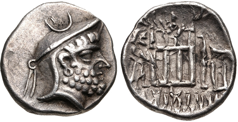 KINGS of PERSIS. Dārēv (Darios) I. 2nd century BC. Aramaic coin legend d’ryw mlk (𐡃𐡀𐡓𐡉𐡅 𐡌𐡋𐡊, "King Darius")